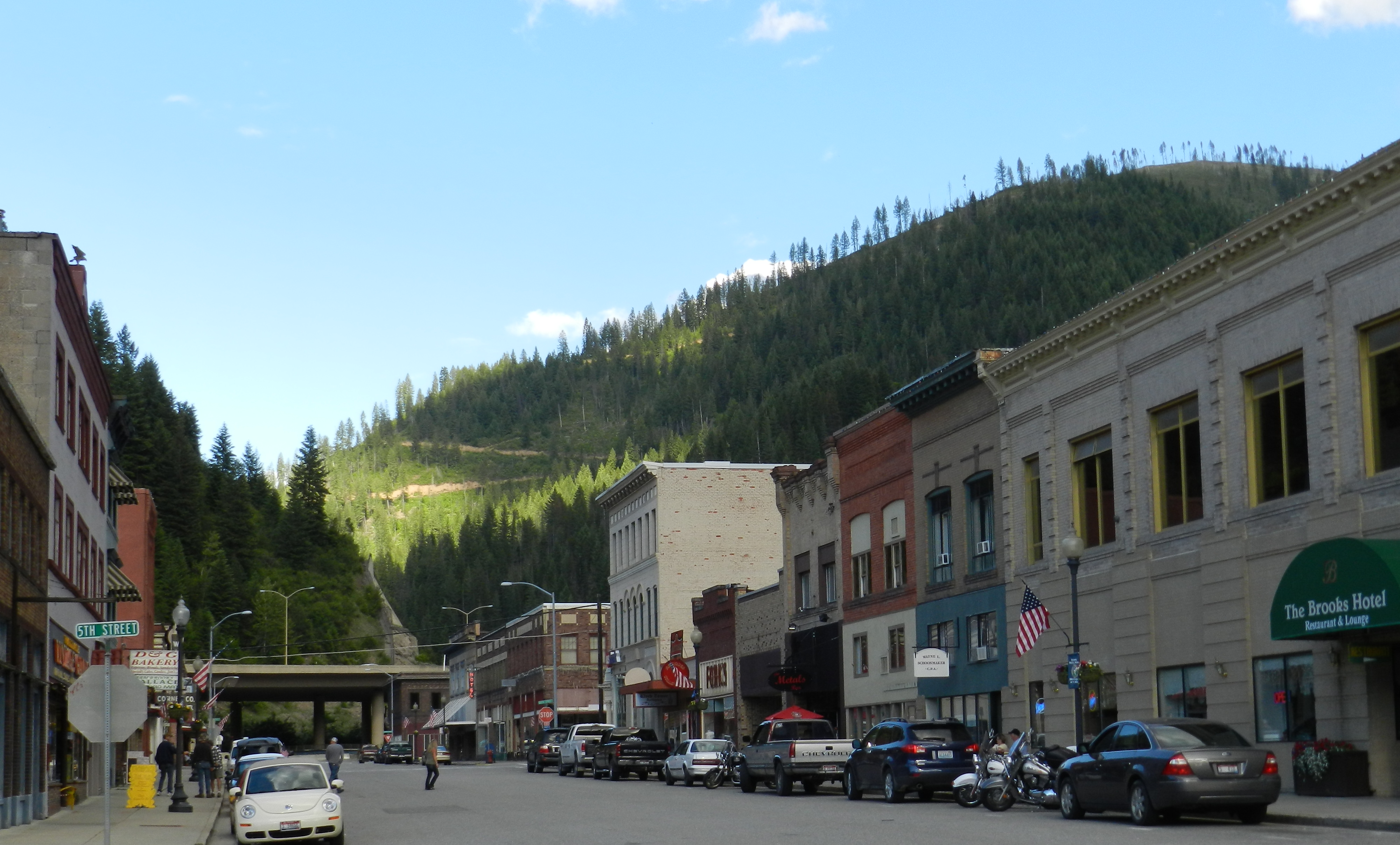 Street in downtown Wallace, Idaho. In the background I-90 vrossing town on a viaduct.